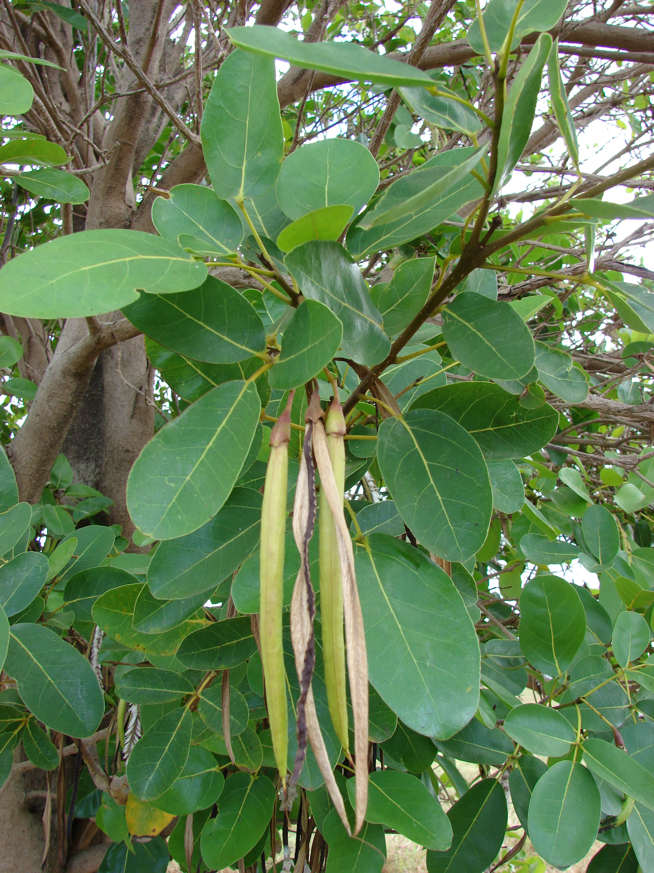 Tabebuia rosea (leaves and pods). Location: Maui, Makawao Veterinary Clinic